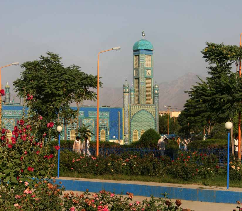 The Blue Mosque in Mazar-e Sharif, which is a city in northern Afghanistan.